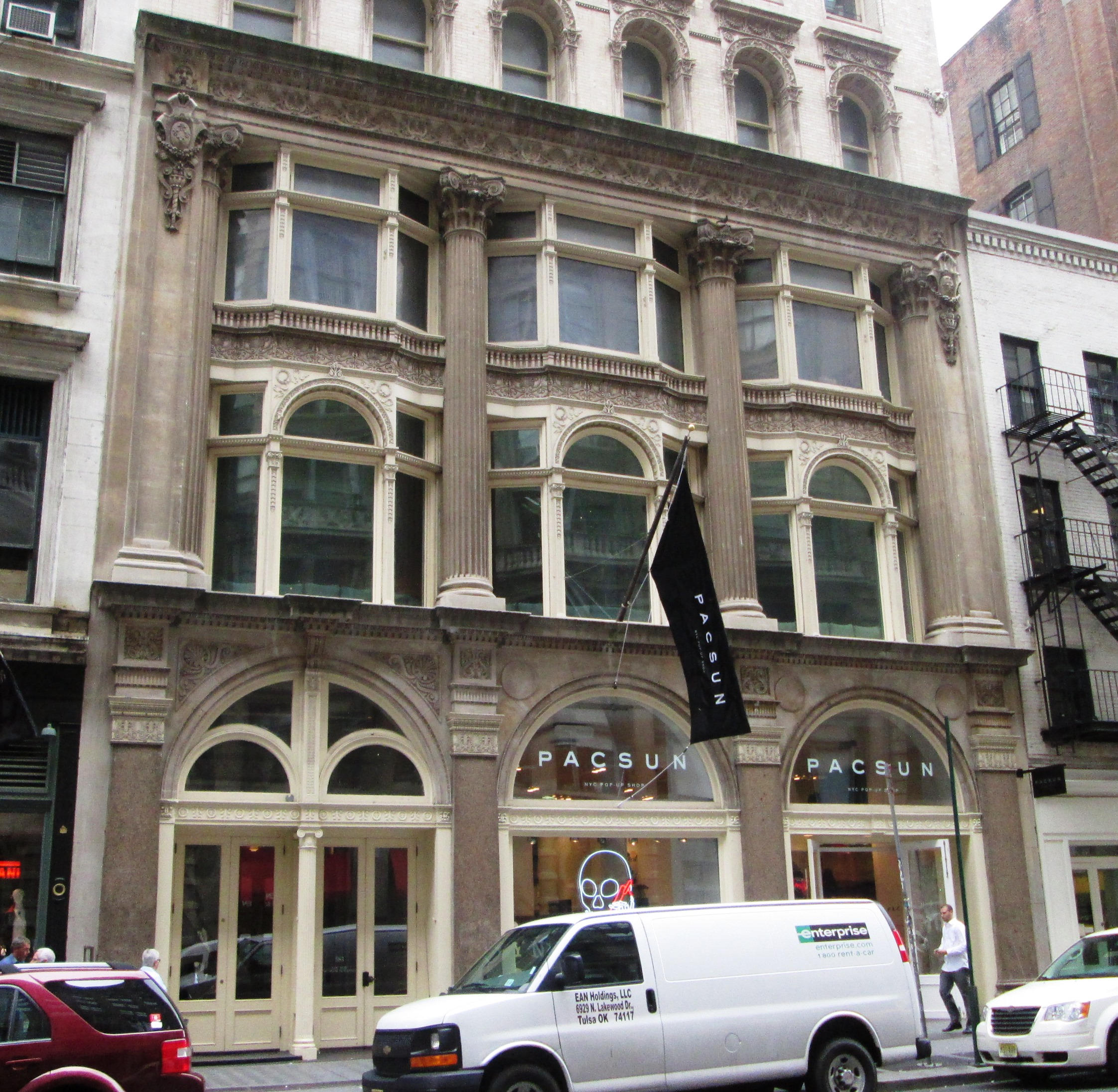 583 Broadway (583-87) between Prince and Houston Streets in the SoHo neighborhood of Manhattan, New York City was built in 1896-97 and was designed by Cleverdon & Putzel. The building, the facade of which is constructed of Indiana limestone, brick and terra cotta, goes through to Mercer Street. It is located in the SoHo - Cast Iron Historic District. (Source: "NYCLPC Designation Report")